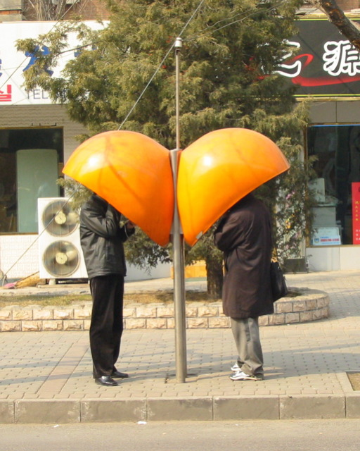 Phone booth in Beijing, China